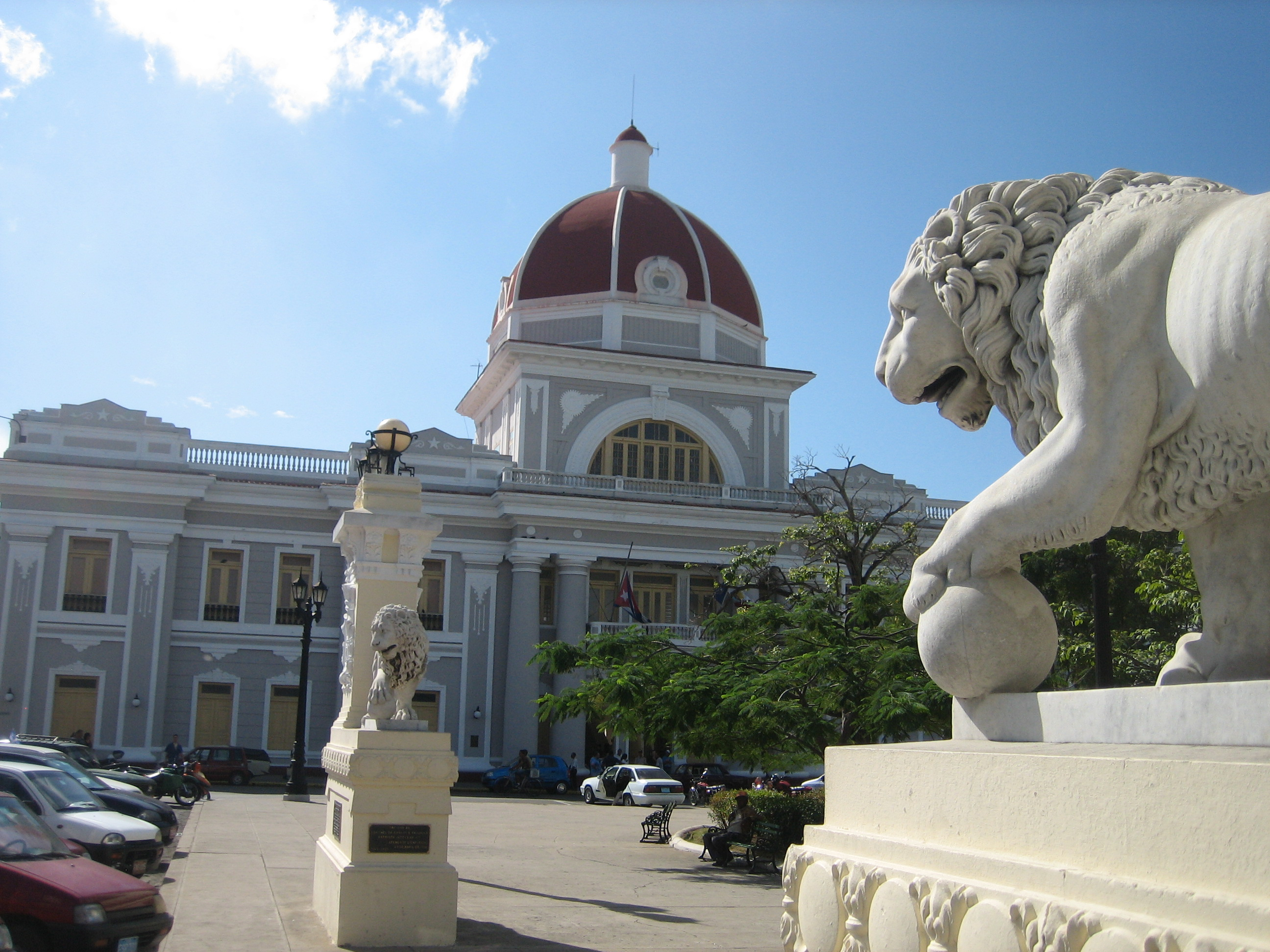 Former provincial palace on Square Marti in Cienfuegos, Cuba.